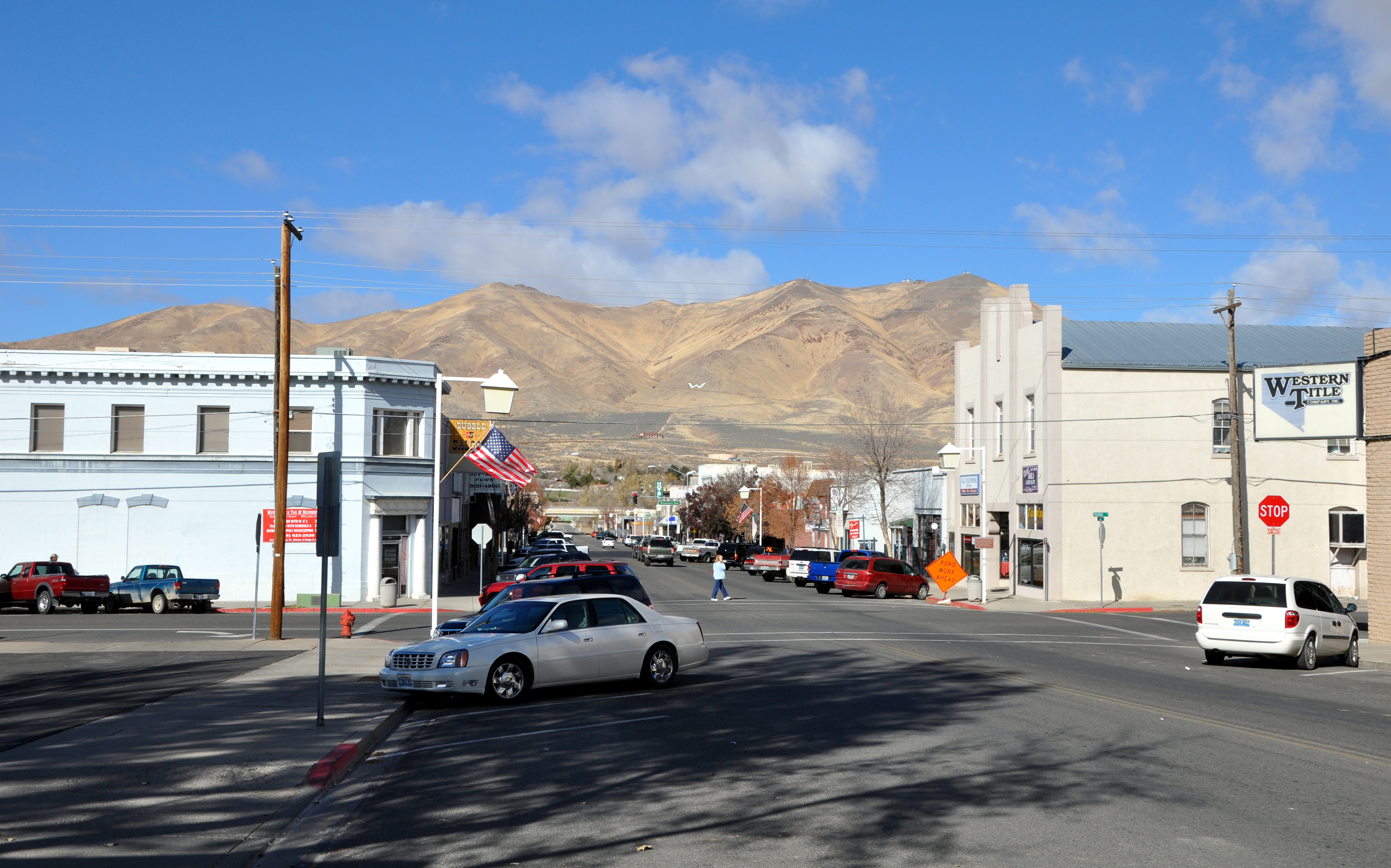 View along South Bridge Street in Winnemucca, Nevada, United States. Looking north toward Winnemucca Mountain.